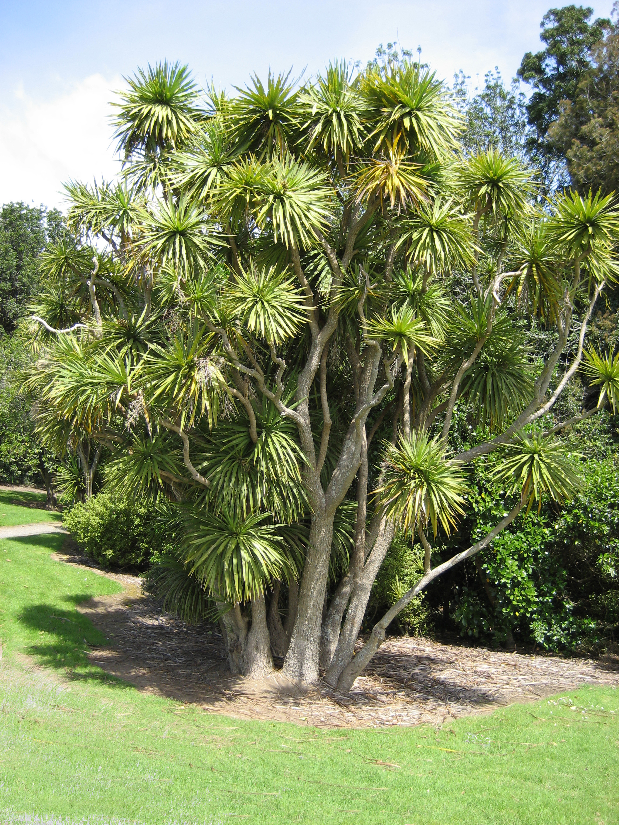 Cordyline australis, (Cabbage tree), Millers Bush, Manukau, New Zealand